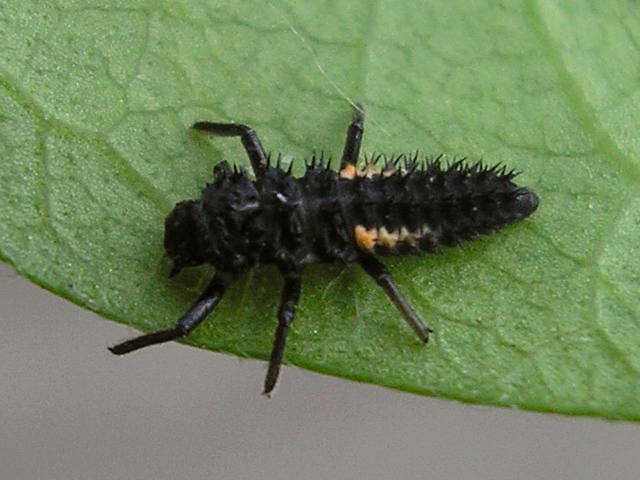 Larva of ladybird species Harmonia quadripunctata (3rd instar).